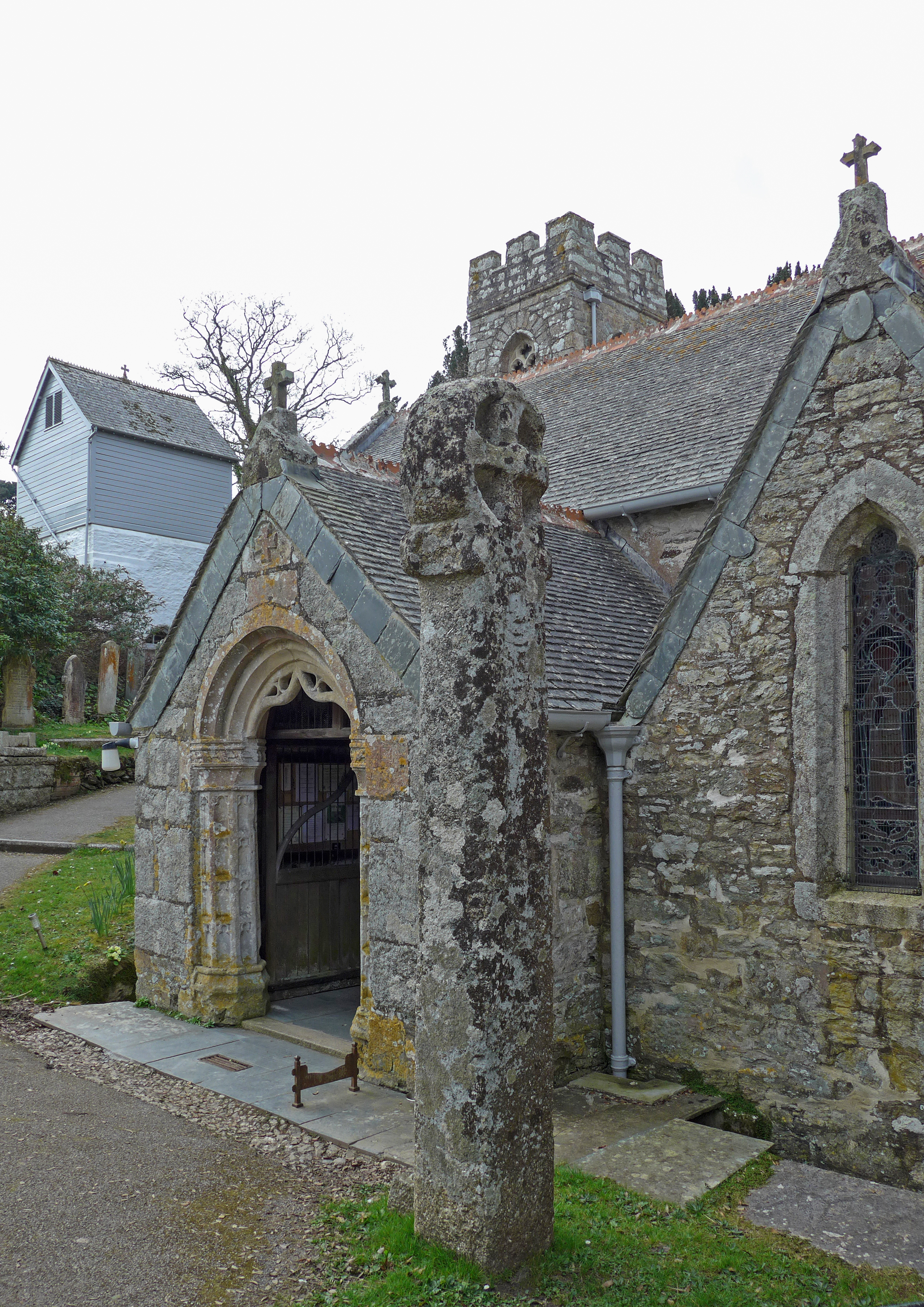 It is the tallest known cross in Cornwall, 17 feet 6 ins long, but with 7 ft of its length embedded in the ground... A particularly fine medieval cross and may be an example of a pagan monolith partly recut for use as a Christian symbol.